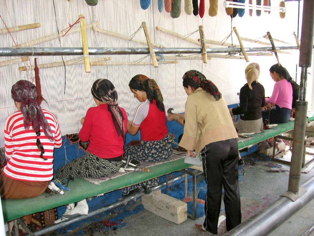 Khotan (Hotan / Hetian) is an oasis city in the Xinjiang Uygur Autonomous Region of the People's Republic of China. Carpet factory.